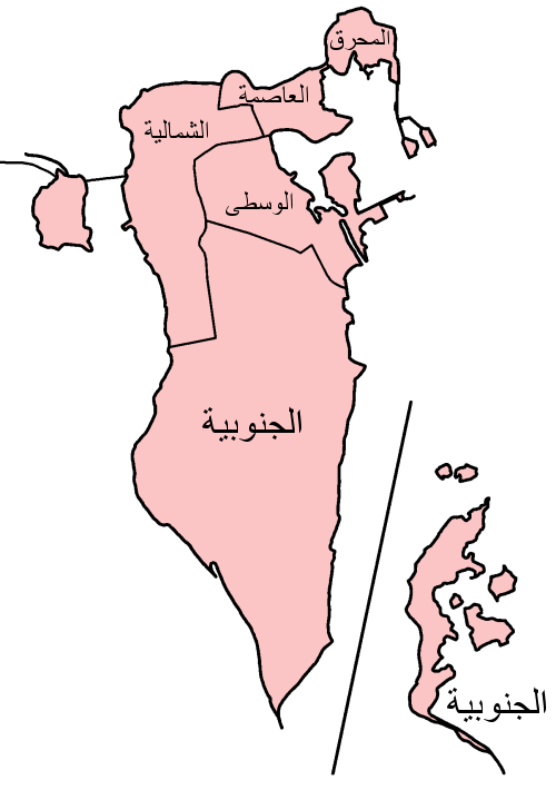 Map of the governorates of Bahrain in Arabic. Please tell me if there are any problems or inaccuracies with this map. محافظات البحرين Made by User:Golbez.